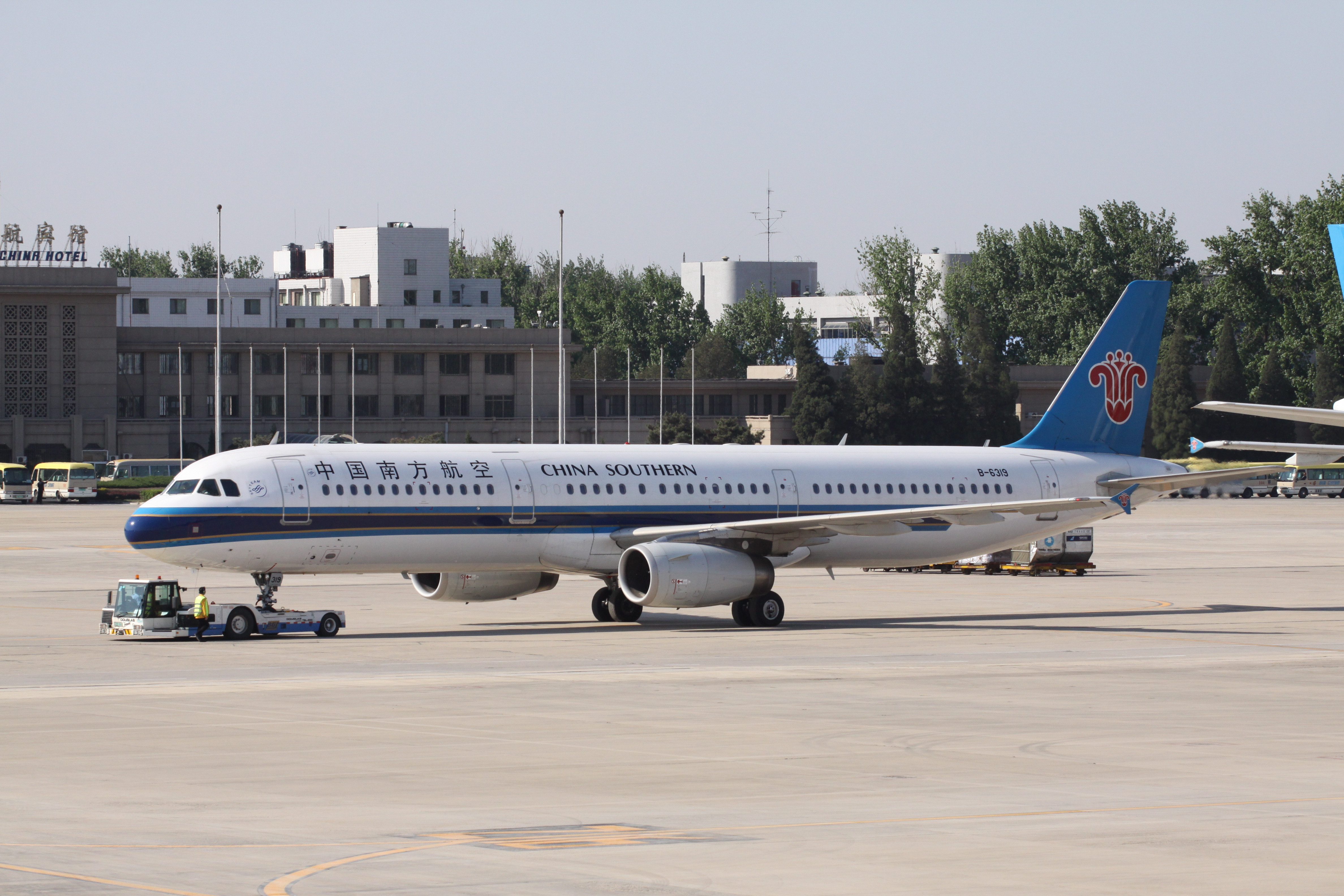 Beijing Capital Airport 中国南方航空(南航) China Southern Airlines